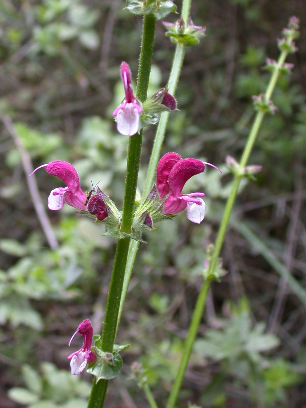 Salvia hierosolymitana Boiss., var. hierosolymitana (Jerusalem sage), Judean Mountains, Israel, March 15, 2006.